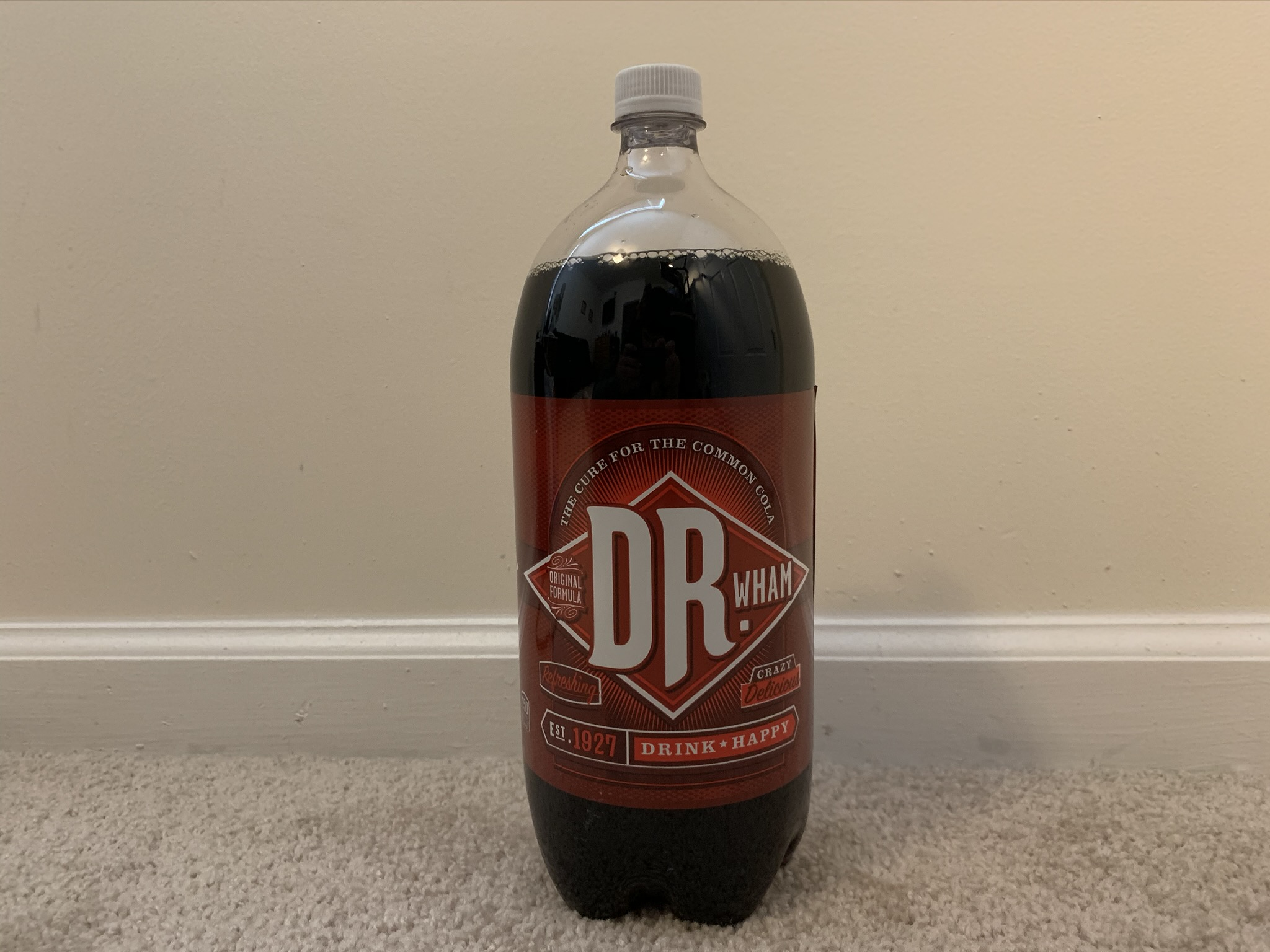 A 2 liter bottle of Dr. Wham which is produced by Buffalo Rock.